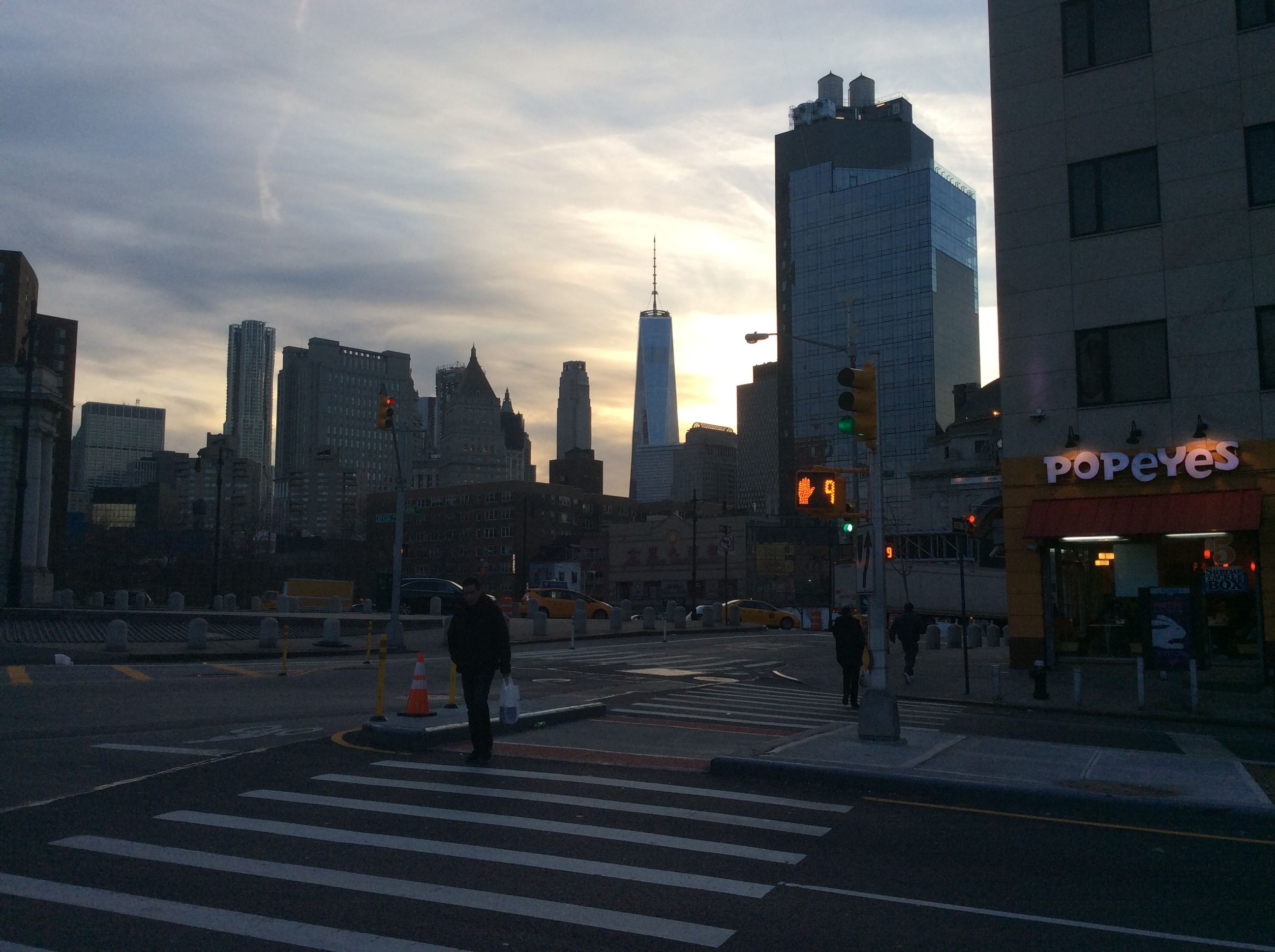 Chrystie Street and Canal Street in Manhattan. View from March 2017